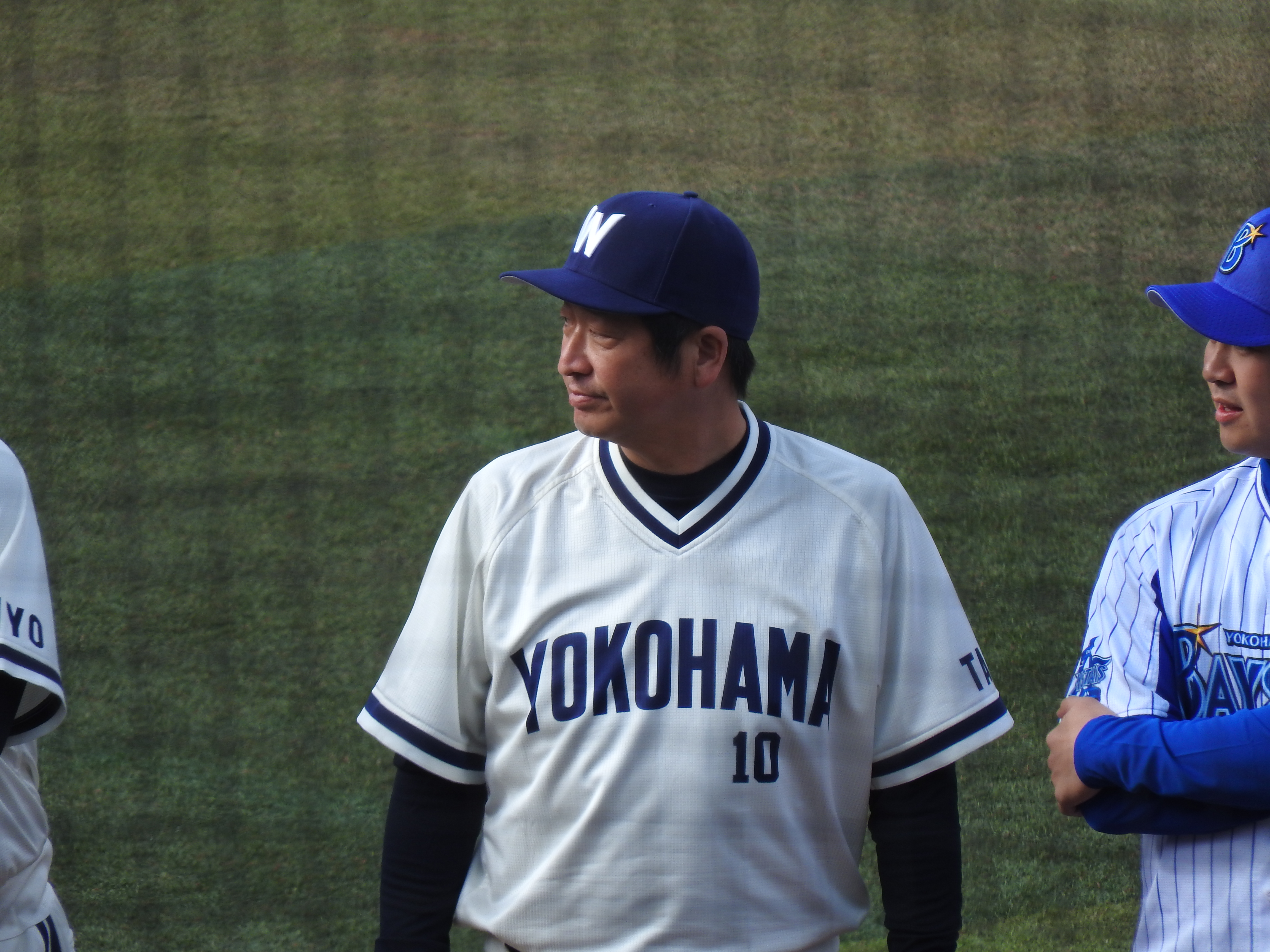 baseball player